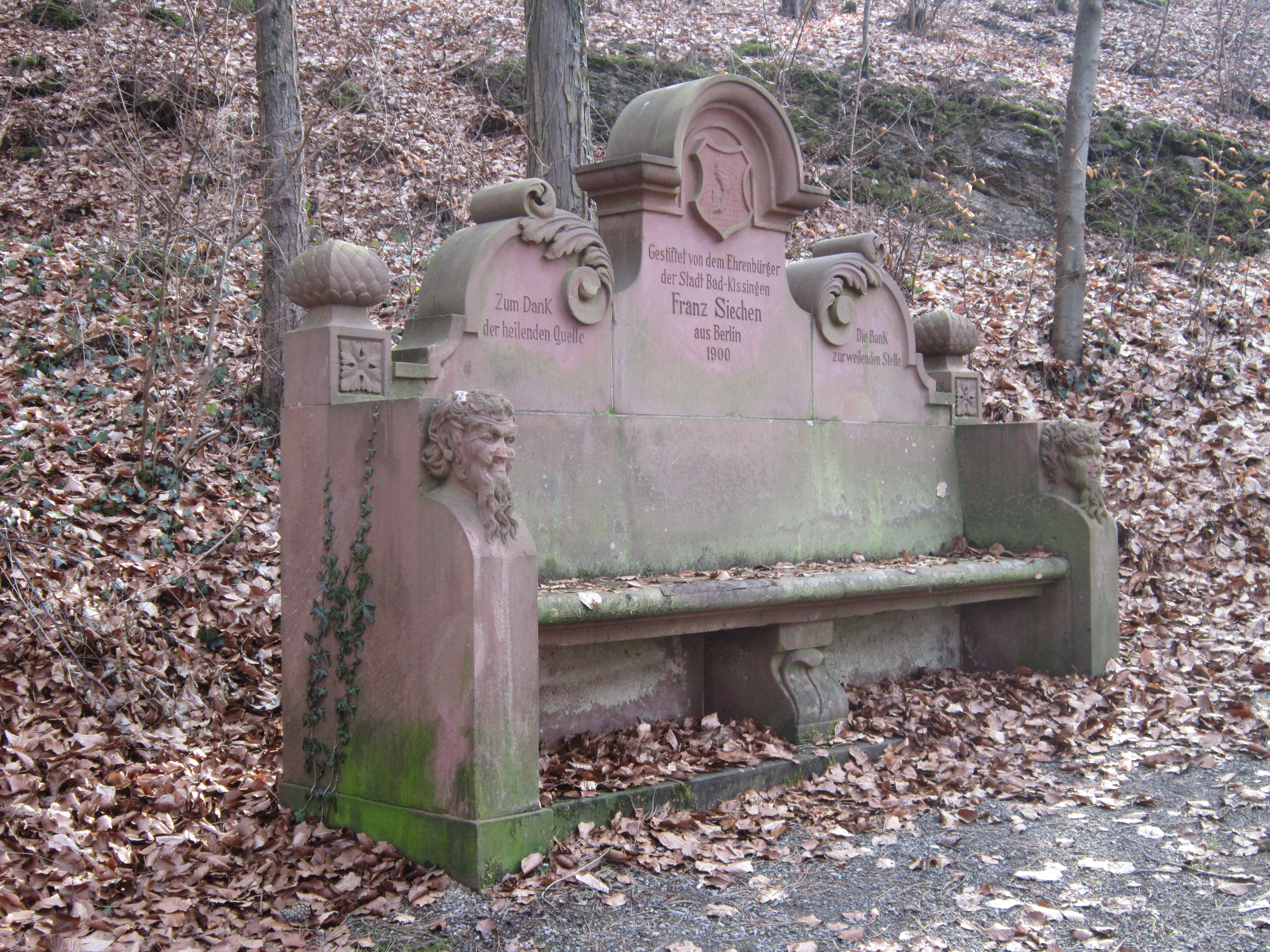 "Siechen-Bank" at the "Ballinghain" in Reiterswiesen, a quarter of the German spa town of Bad Kissingen in Lower Franconia (Bavaria).